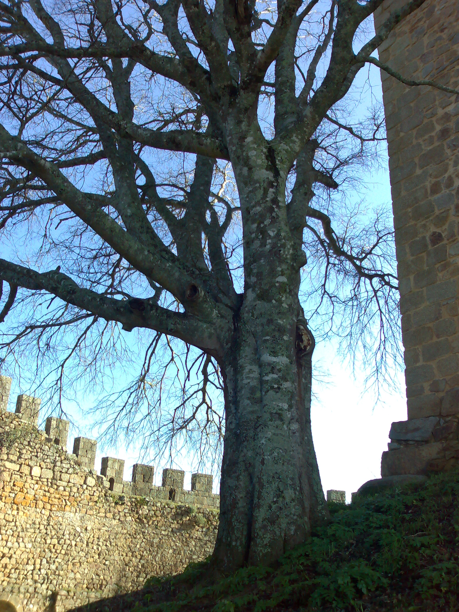 View from the inside of the Belver castle walls, Gavião, Portugal.